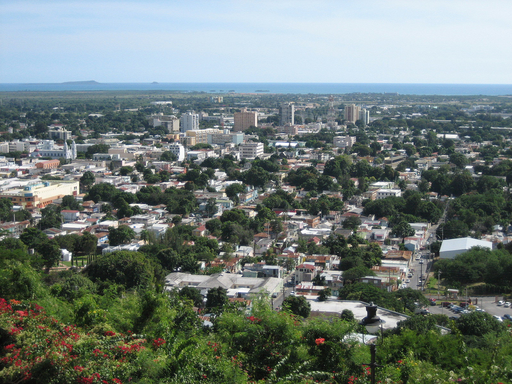 Ponce, southern Puerto Rico.